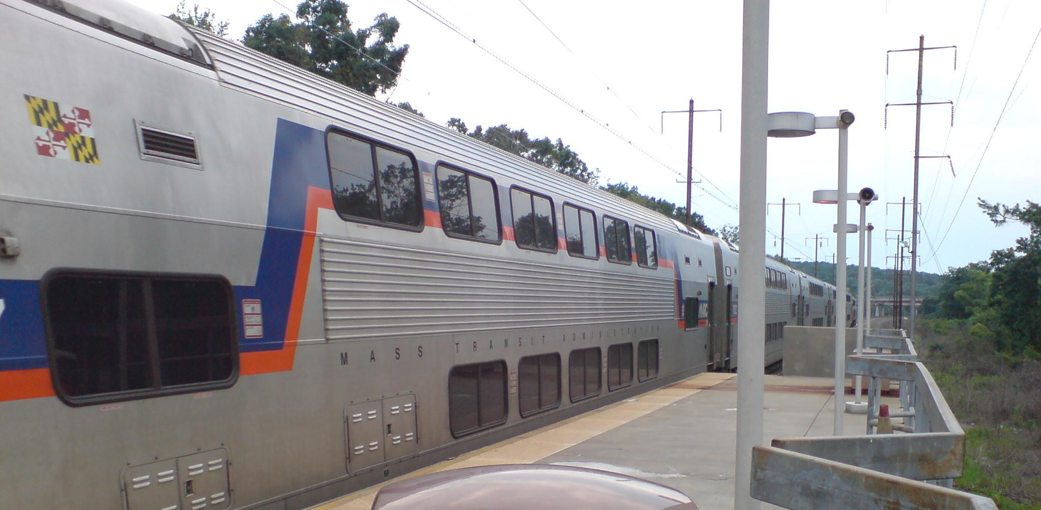 MARC III Kawasaki bi-levels at BWI Rail Station in 2007